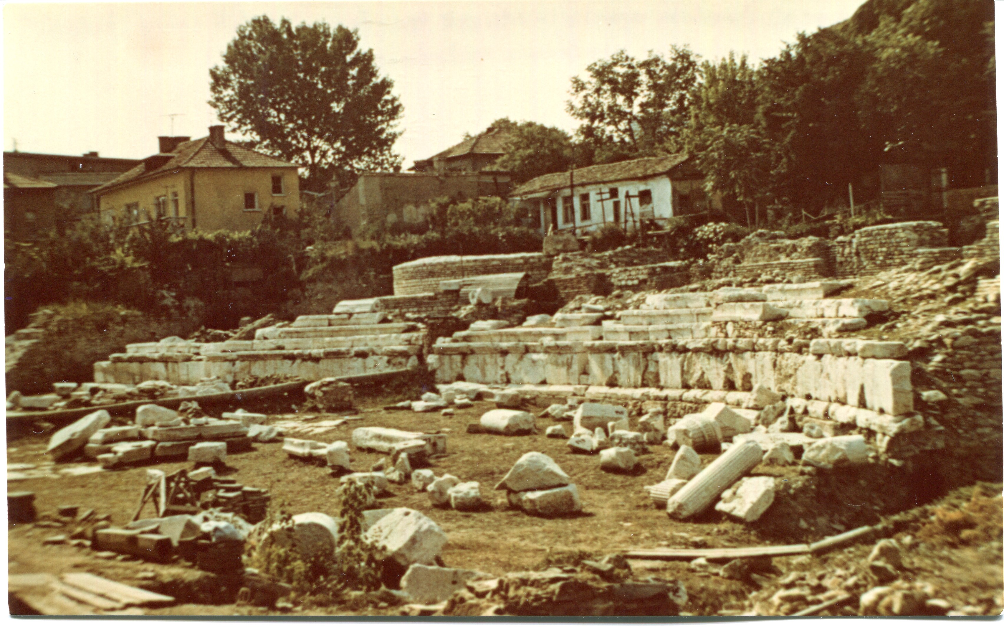 Stara Zagora – general view of the Roman forum during the uncompleted exploration (1970s)